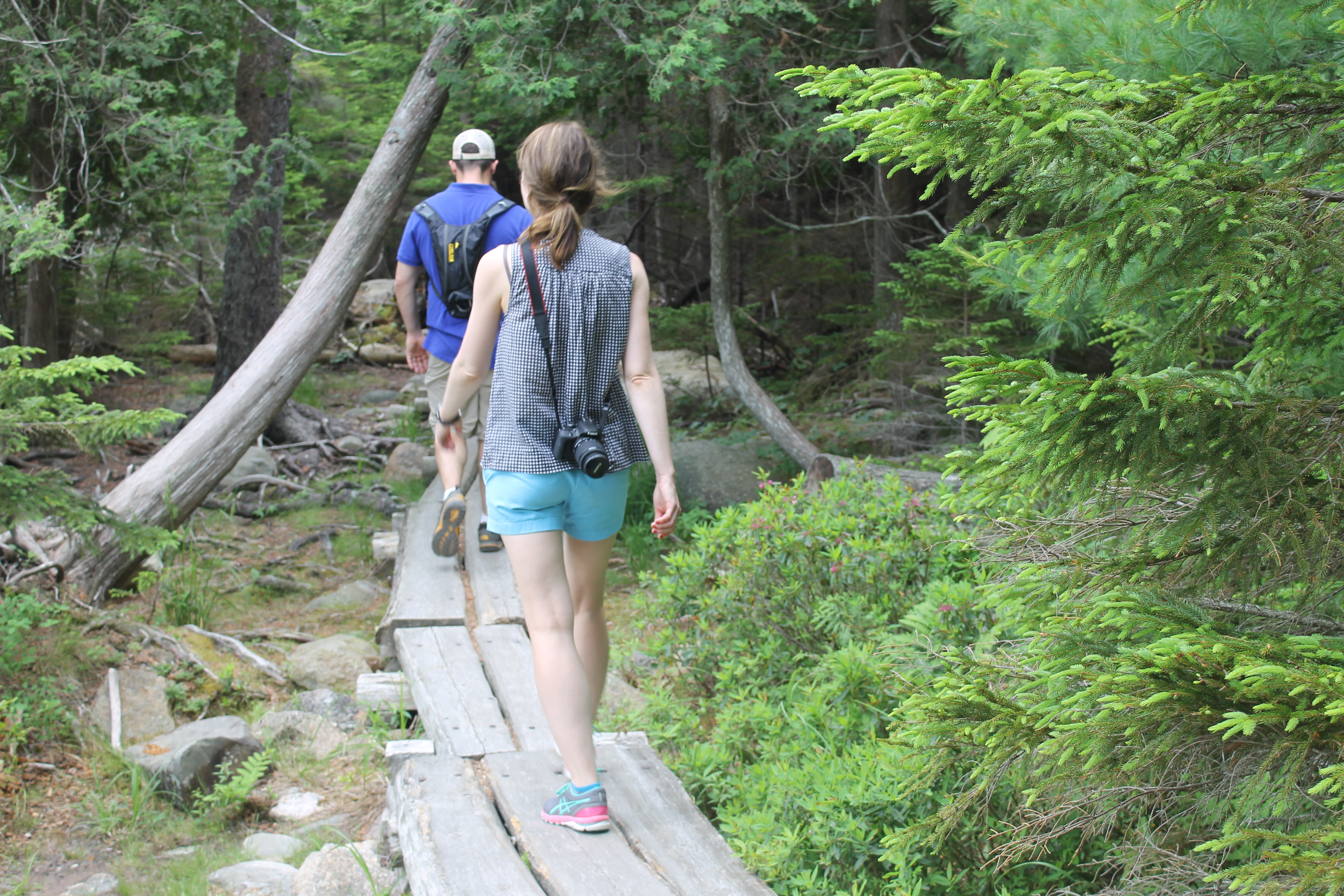 I took photo of hikers at Jordan Pond at Acadia National Park, ME, with Canon camera.